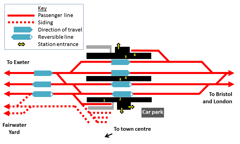 A diagram showing the layout of tracks and platforms at Taunton railway station, Somerset, England. Not to scale.